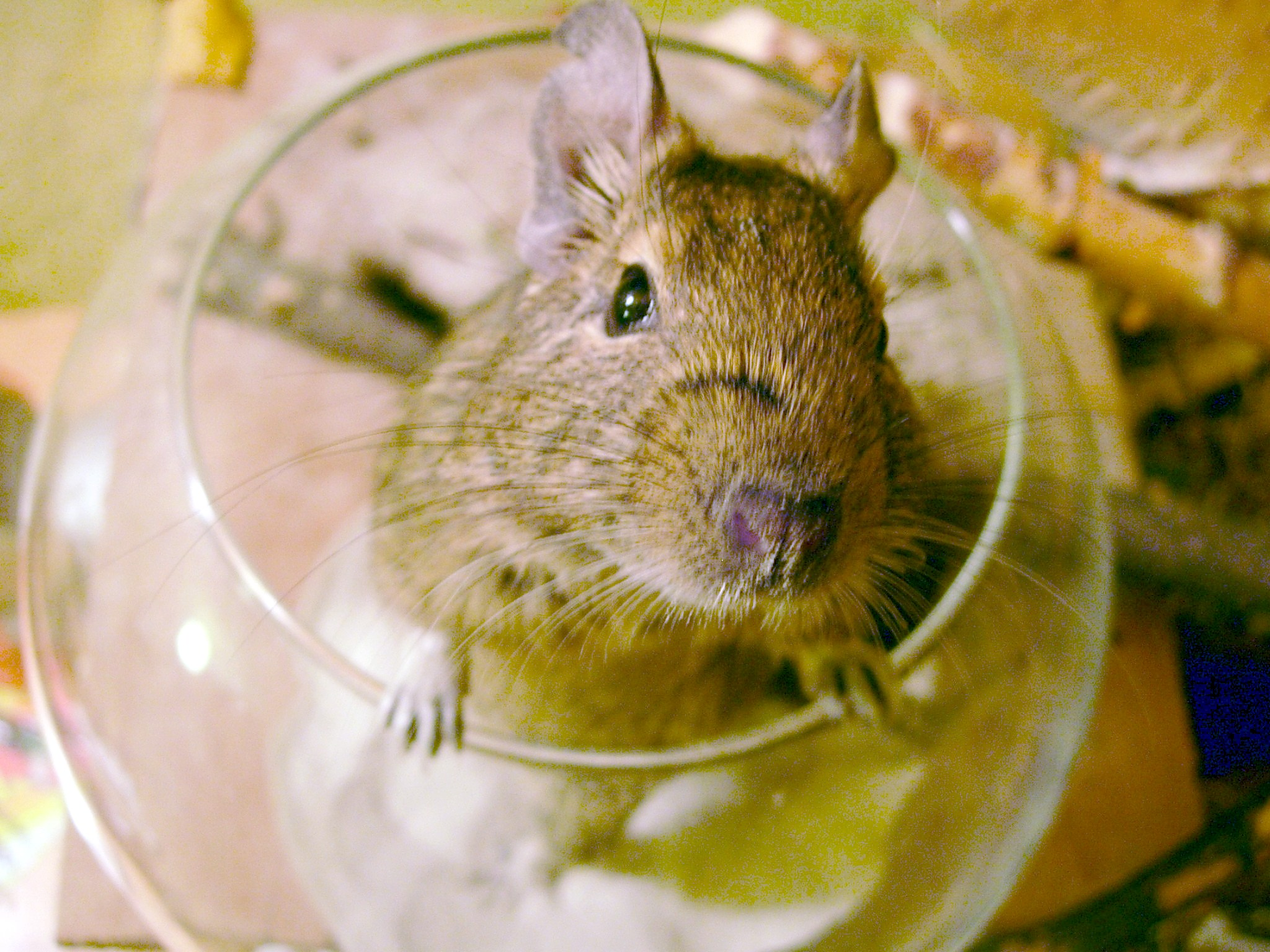 The sand bath of Octodon degus